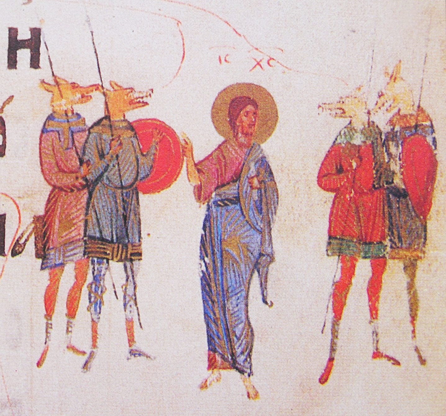 Kievan Psalter